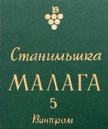 Stanimaschka malaga BG wine label